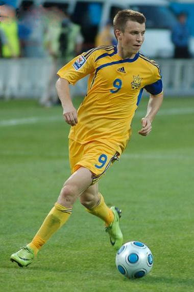 Ruslan Rotan, midfielder for FC Dnipro Dnipropetrovsk